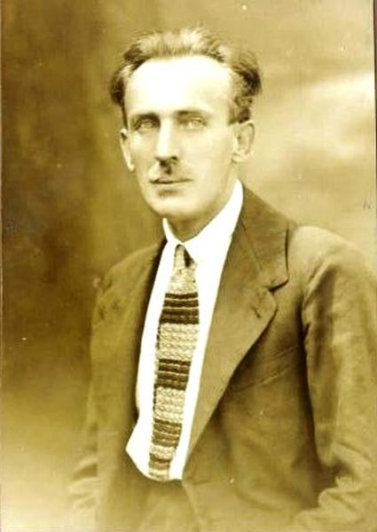 Josip Vandot (15 January 1884 - 11 June 1944) was a Slovene writer and poet who wrote mainly for young readers.